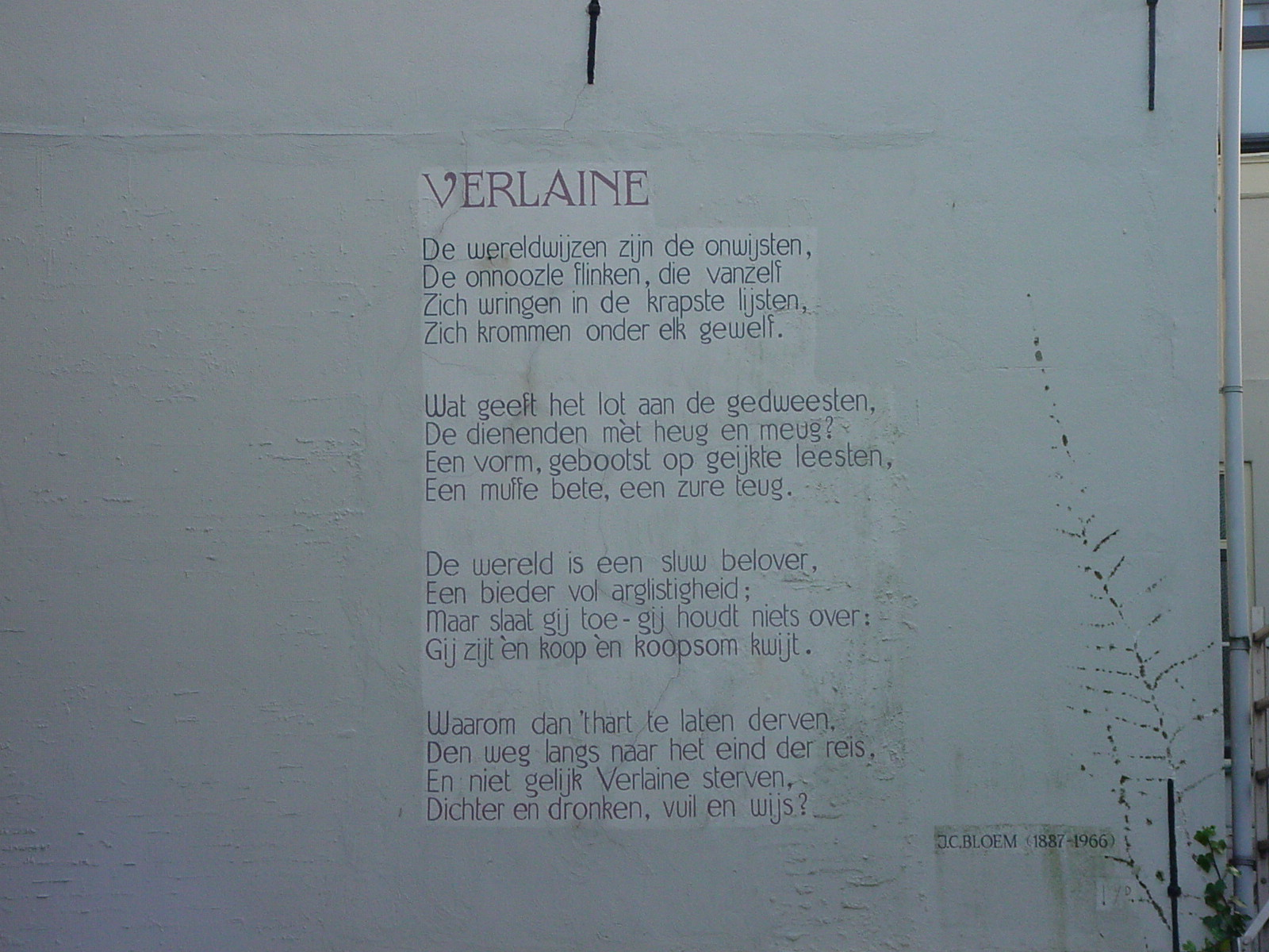 Wallpoem in Leiden by Tegen-Beeld of Verlaine by J.C. Bloem